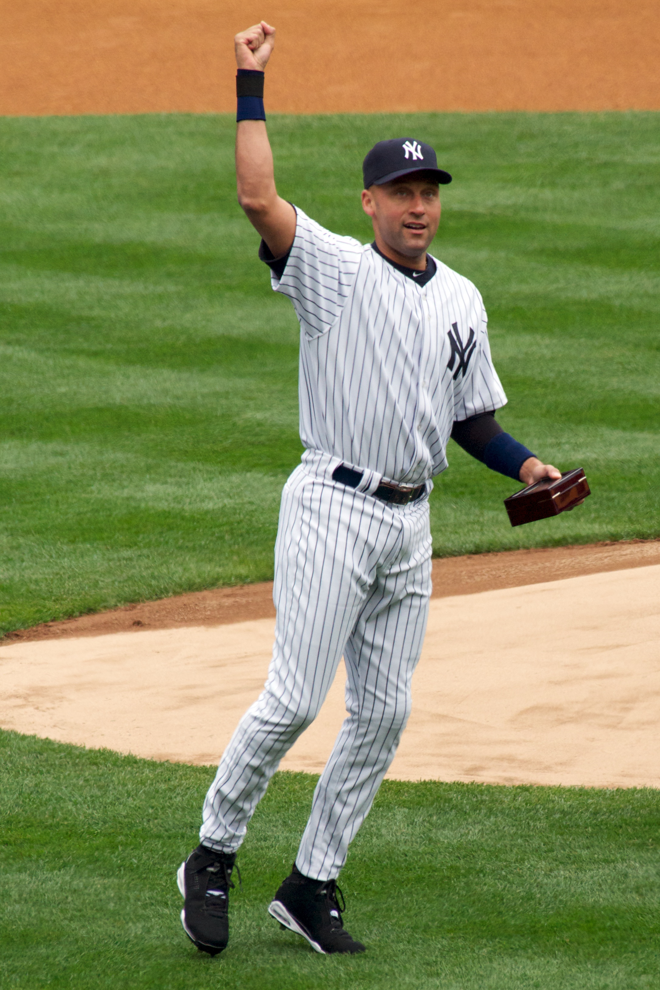 On Opening Day 2010 at Yankee Stadium, Derek Jeter receives his 2009 World Series Championship ring